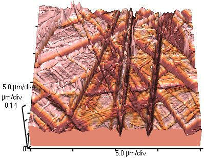 Atomic force microscope topographical scan of a glass surface. The micro and nano-scale features of the glass can be observed, portraying the roughness of the material. The image space is (x,y,z) = (20um x 20um x 420nm). The AFM used was the Veeco di CP-II, scanned in contact mode. Constructed at the Nanorobotics Laboratory at Carnegie Mellon University (